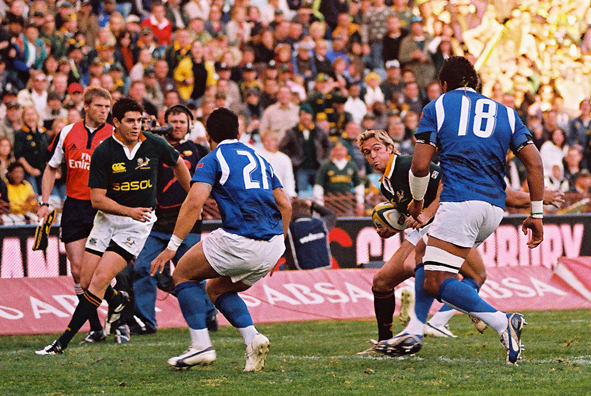 Springbok replacement fullback Percy Montgomery weaves his way towards the try-line alongside Jaque Fourie, in the South Africa versus Samoa rugby Test on Saturday, 9 June 2007, at Ellis Park, Johannesburg, South Africa. Montgomery scored this try in the sixty-third minute of the game bringing up his 700th point in Test rugby. The Springboks beat Samoa 35–8. Picture taken with a Nikon F80 (35mm SLR).